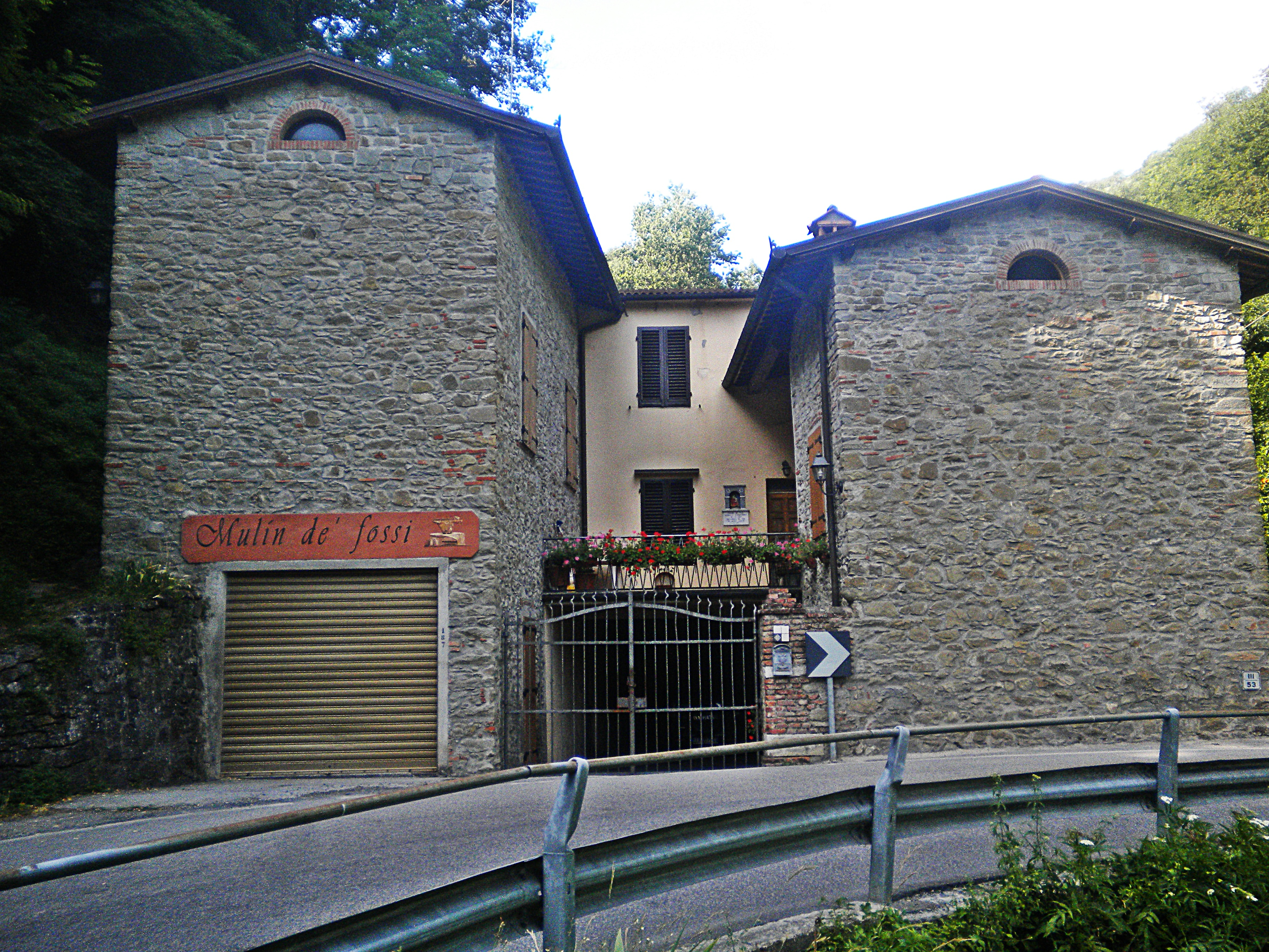 De' Fossi mill